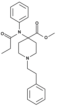 Carfentanil molecule. User-created with BKchem/Photoshop.